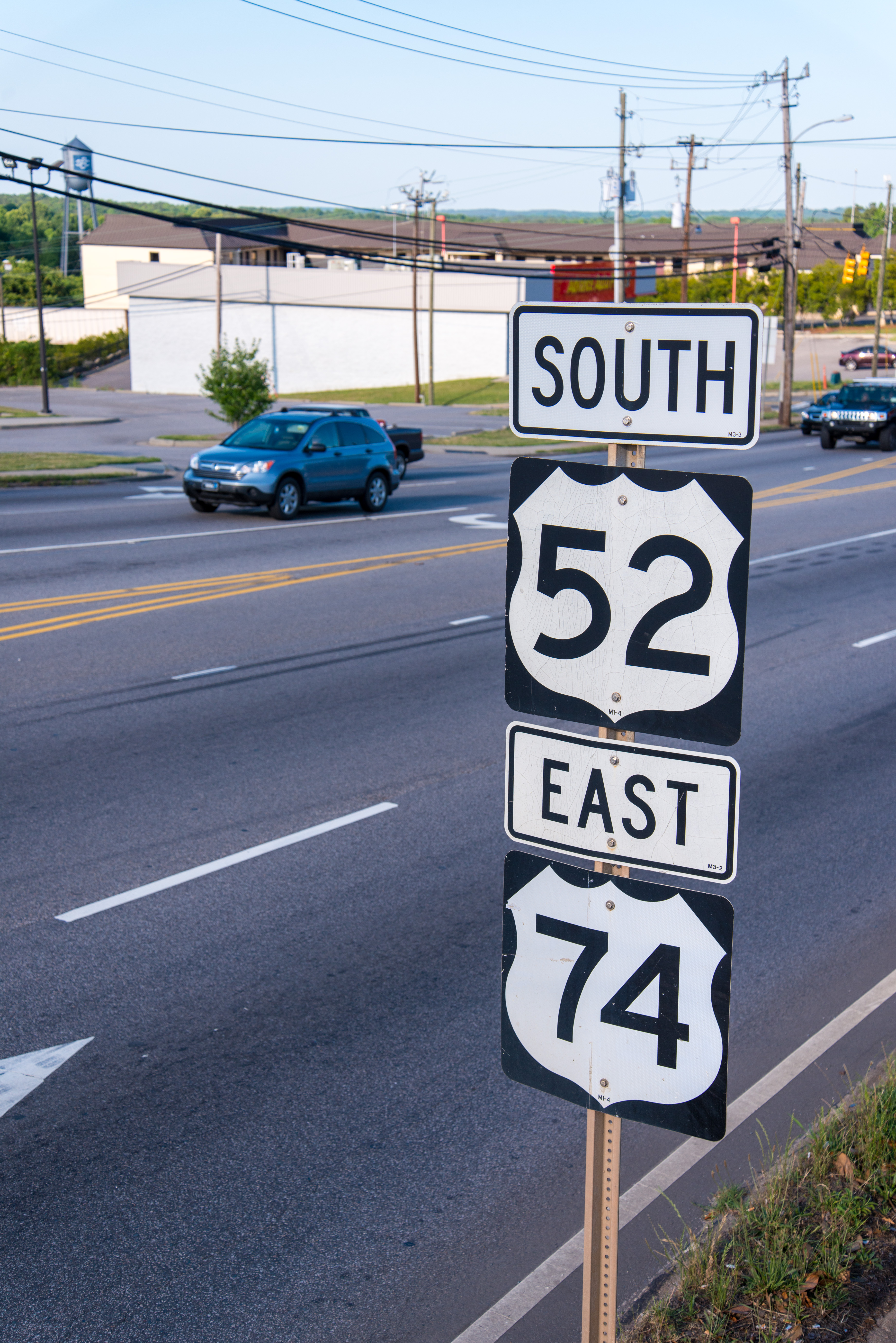 Southbound U.S. Route 52 and eastbound U.S. Route 74 along Caswell Street, in downtown Wadesboro, North Carolina.